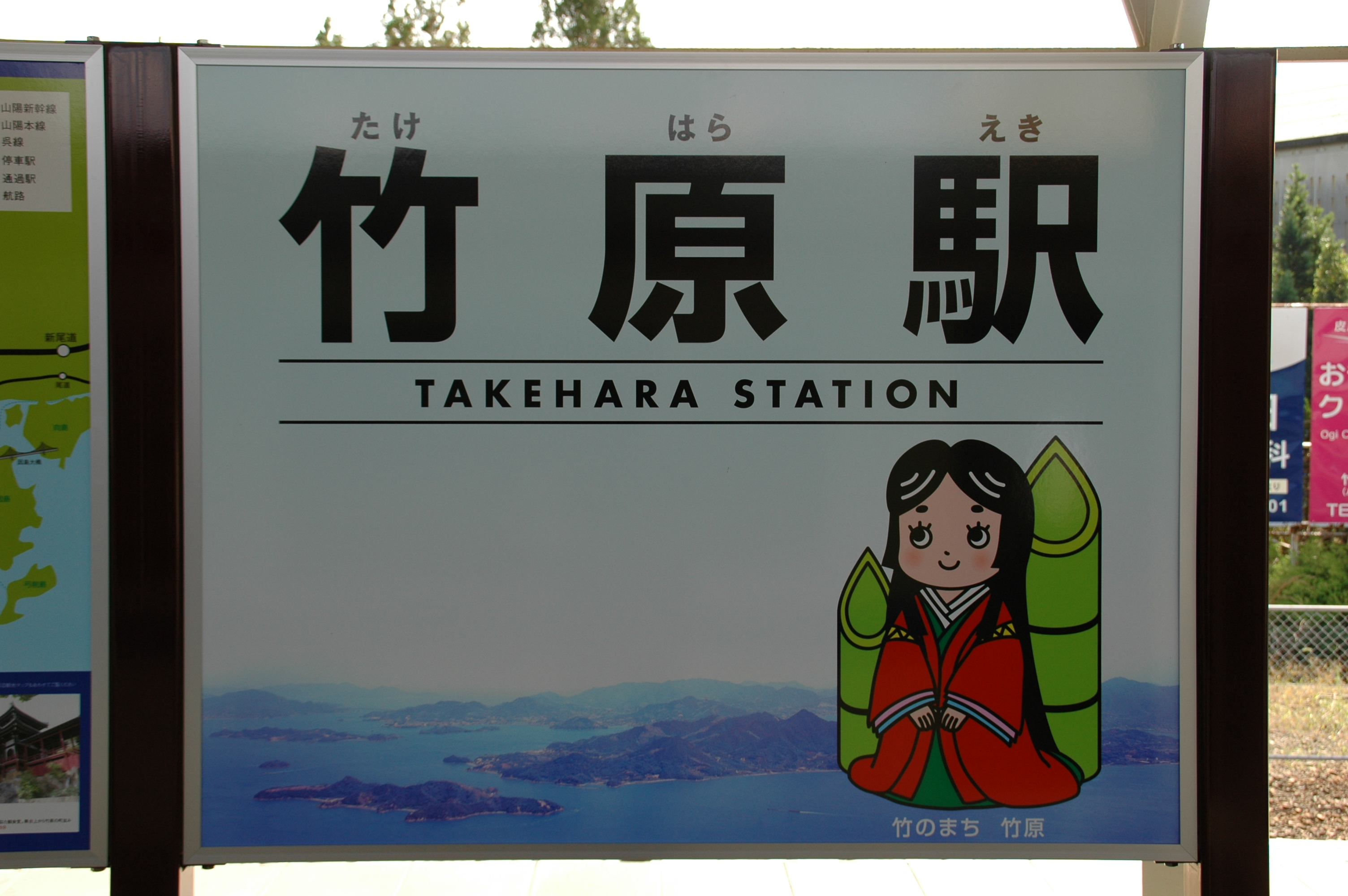 Takehara Station sign